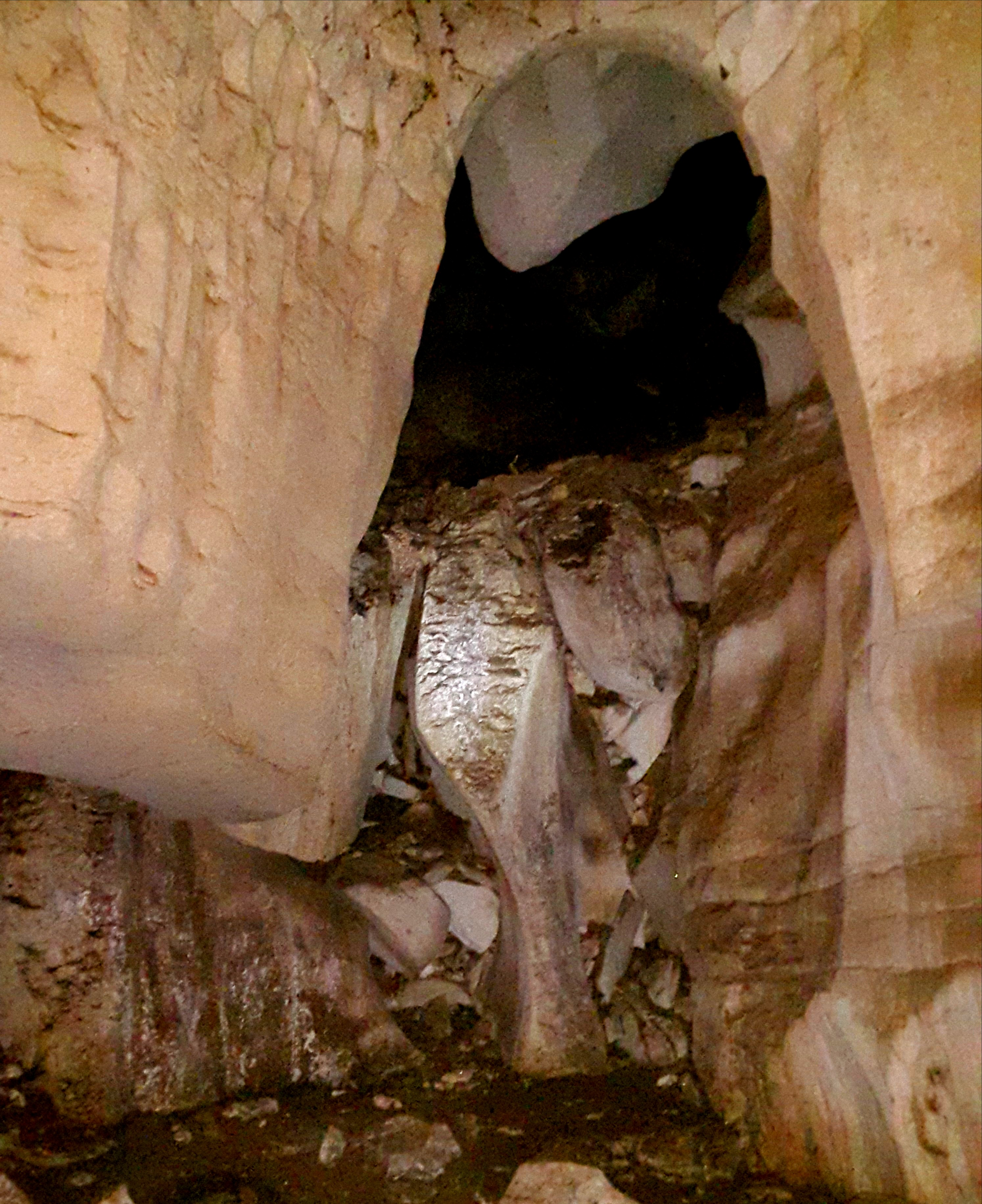 Ambon_Caves